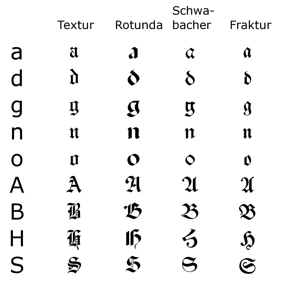 Overview on several blackletter typefaces.